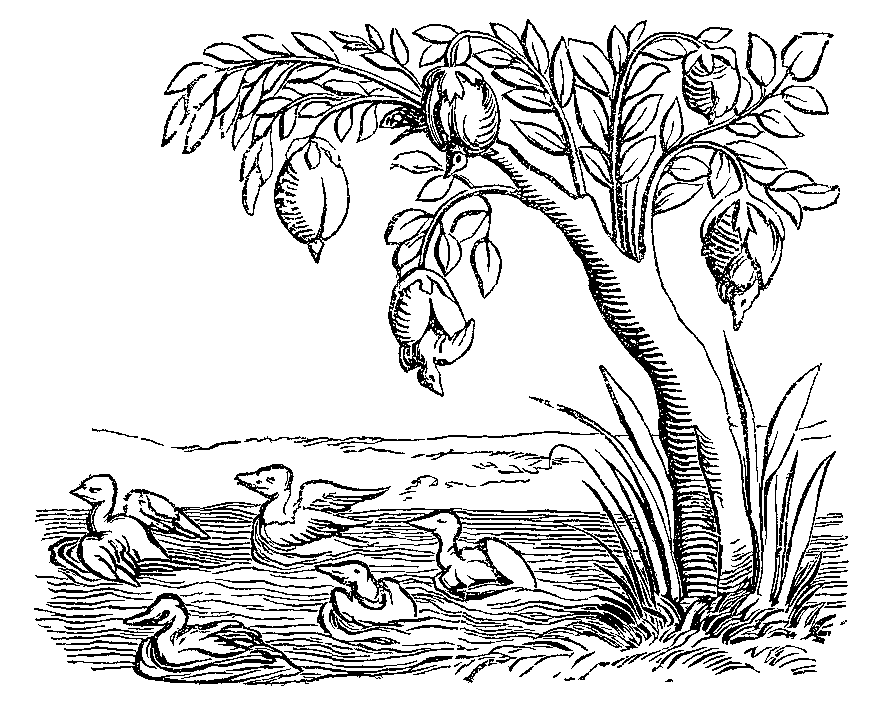 Barnacle Geese. Facsimile of an Engraving on Wood, from the "Cosmographie Universelle" of Munster, folio, Basle, 1552. Project Gutenberg text 10940